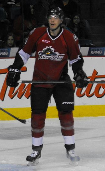 Taken 11/30/2013 @ Copps Coliseum, Hamilton, ON